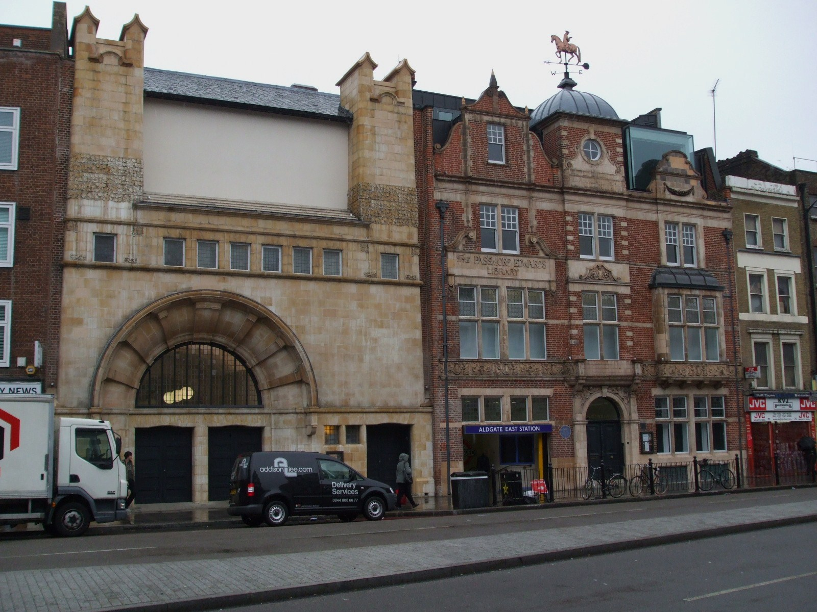 Aldgate East tube station northeastern entrance, adjacent to Whitechapel Art Gallery. Building viewed soon after re-opening after refurbishment.